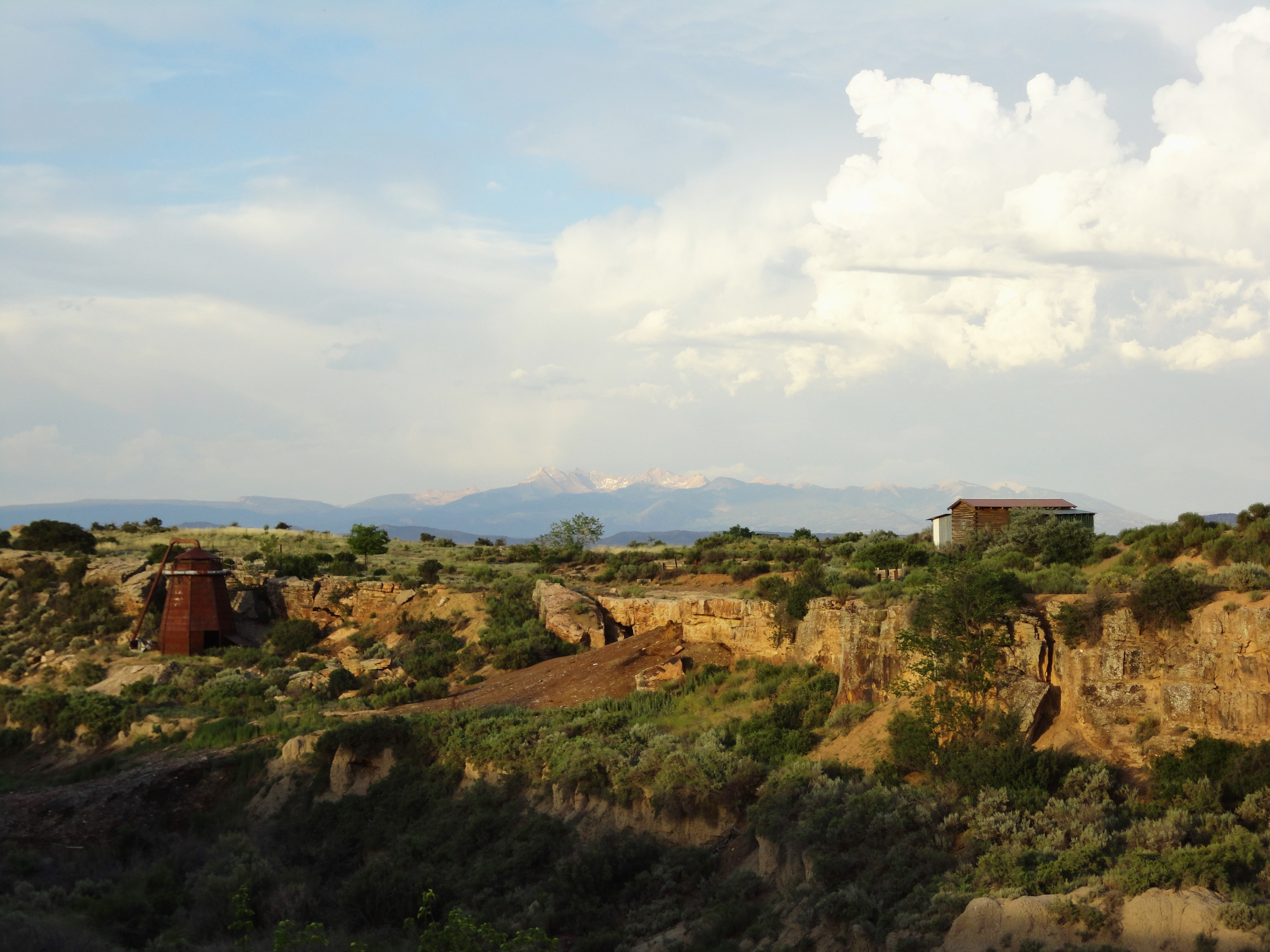 McElmo Creek, with the La Plata Mountains in the background